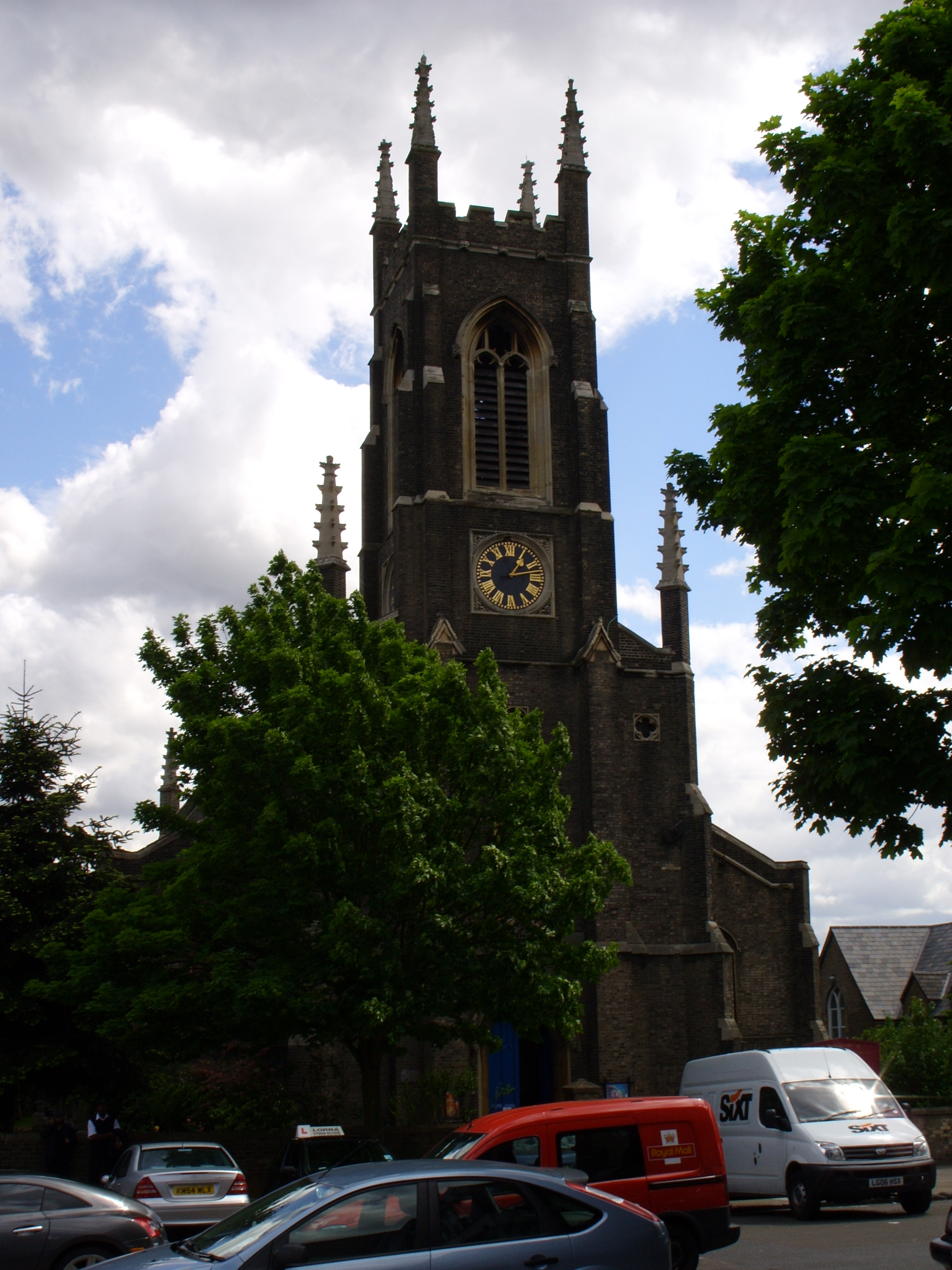 St John's Church, Upper Holloway, London N19